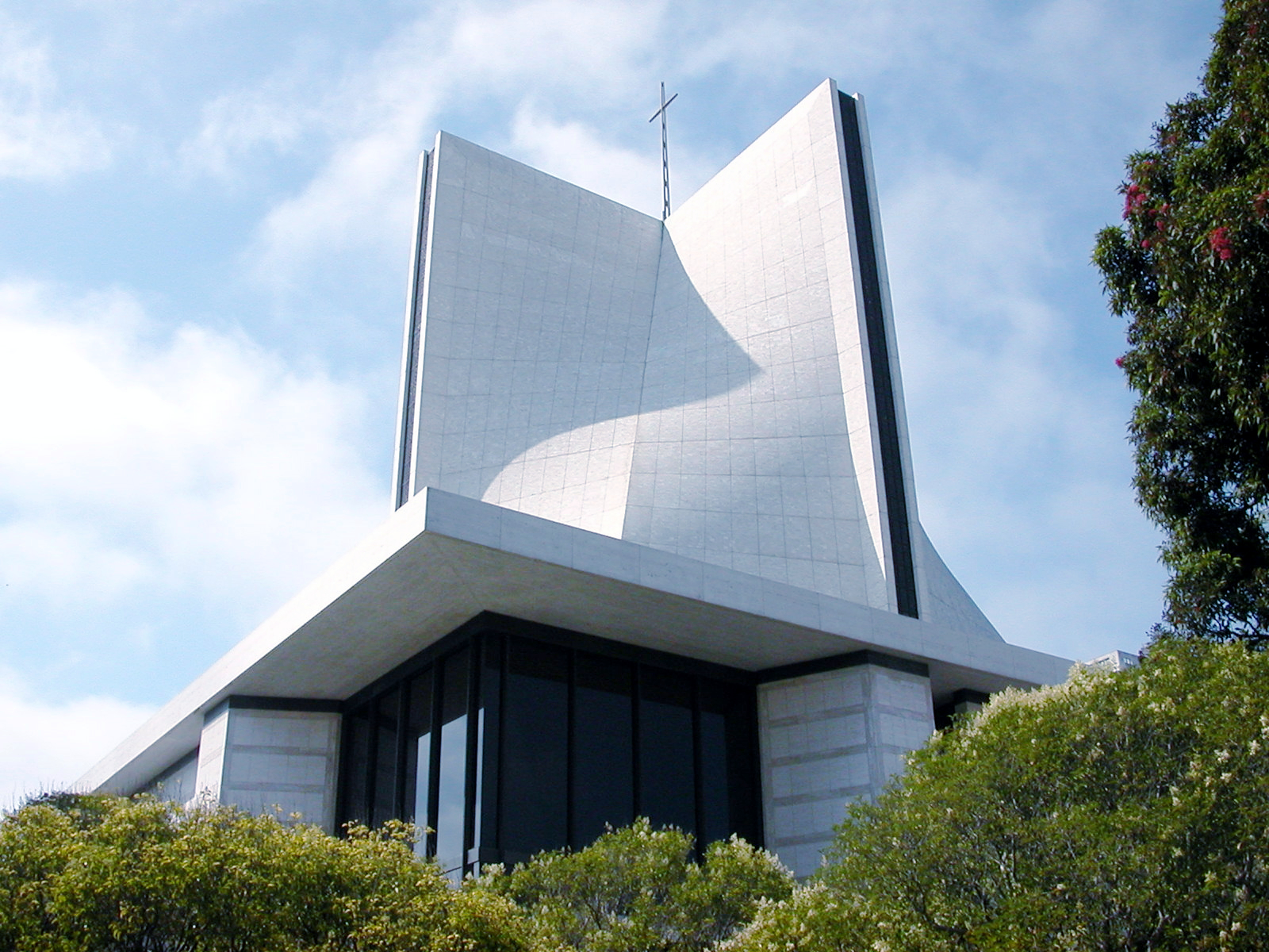 St Mary's Cathedral. Architect, Pietro Belluschi. --Gndawydiak 04:08, 28 September 2006 (UTC)